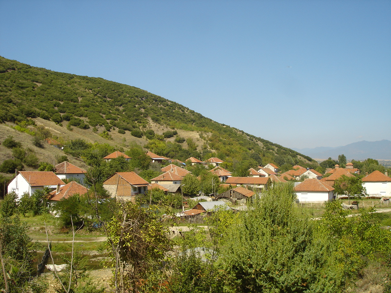 Vodoča village, near Strumica, Macedonia